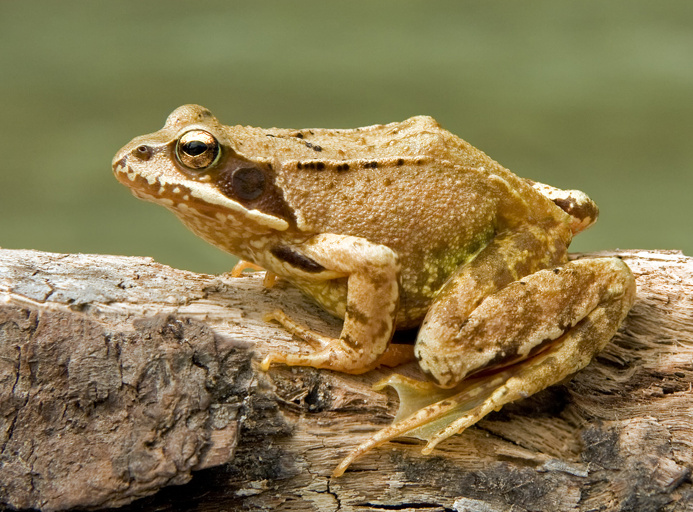 The Common Frog, (Rana temporaria) also known as the European Common Frog or European Common Brown Frog